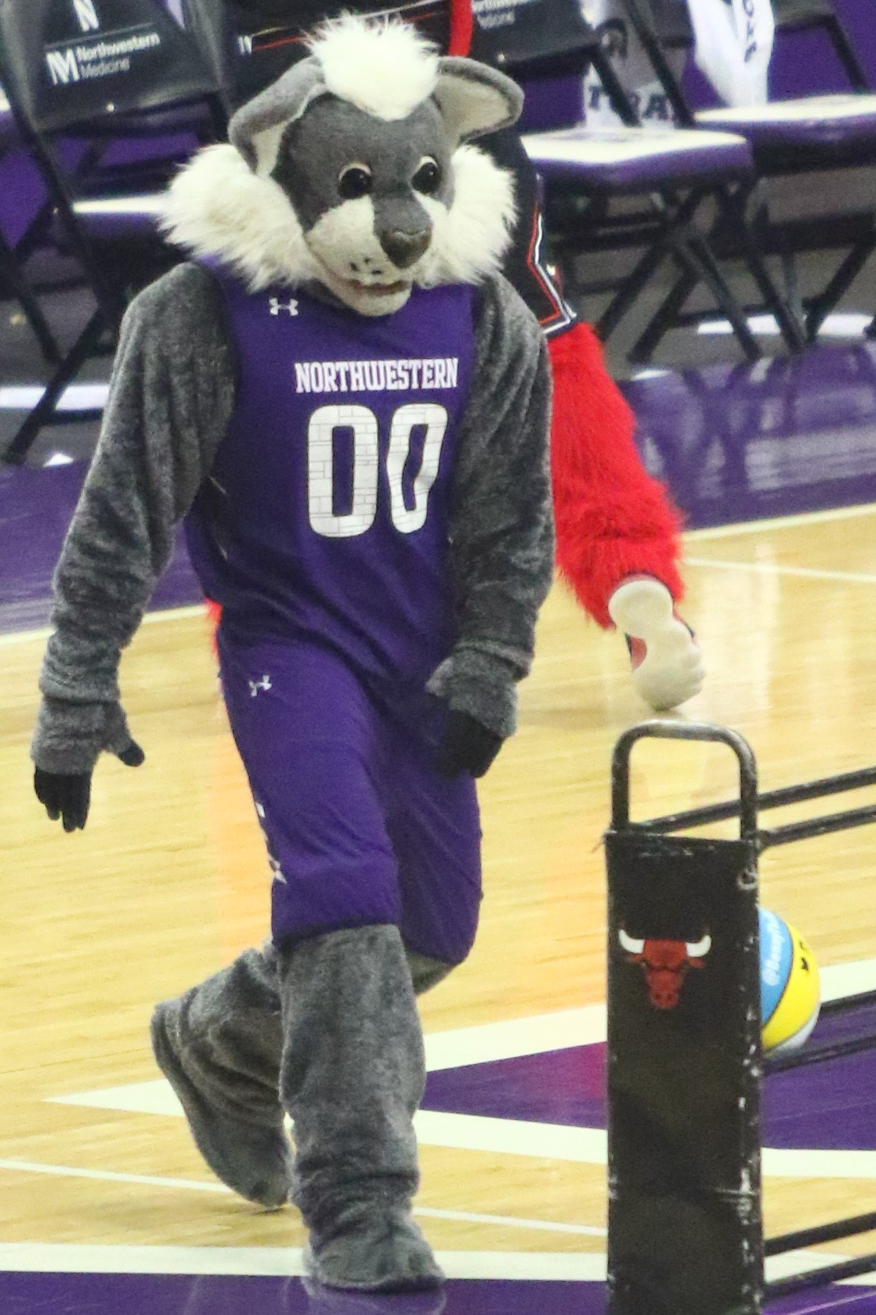 Willie the Wildcat at a game between the w:2017–18 Michigan Wolverines men's basketball team and the w:2017–18 Northwestern Wildcats men's basketball team at Allstate Arena